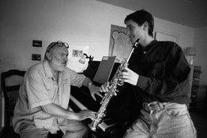 Niels Viggo Bentzon & Per Egholm